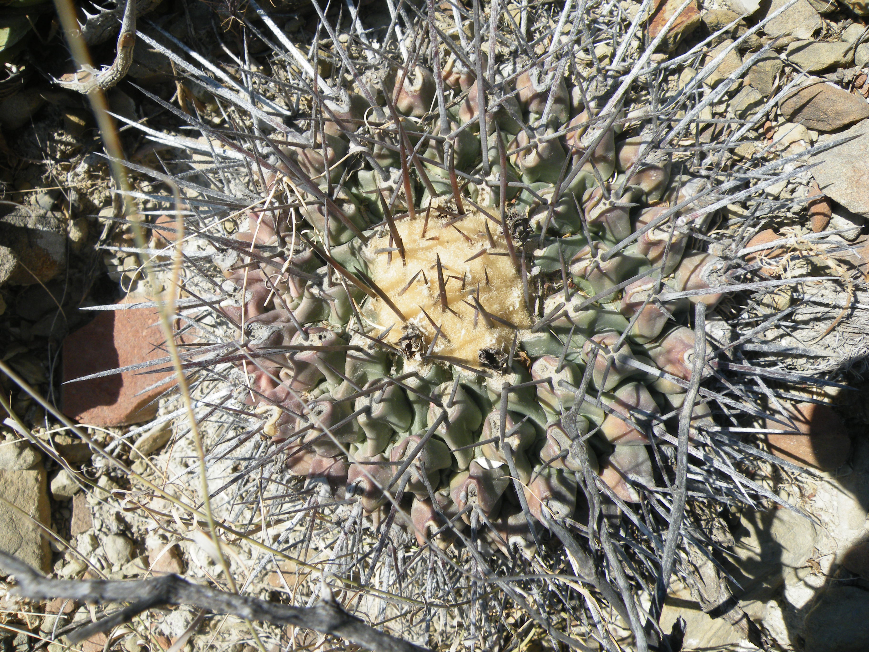 Thelocactus rinconensis, 4 kms before La Gloria, Nuevo Leon